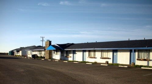 Picture of the Piedras Blancas Motel, on the coast of hwy 1 near Cambria.